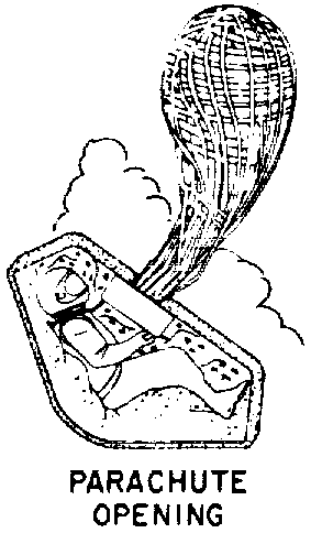 Figure 110.7 MOOSE Operation. Parachute opening